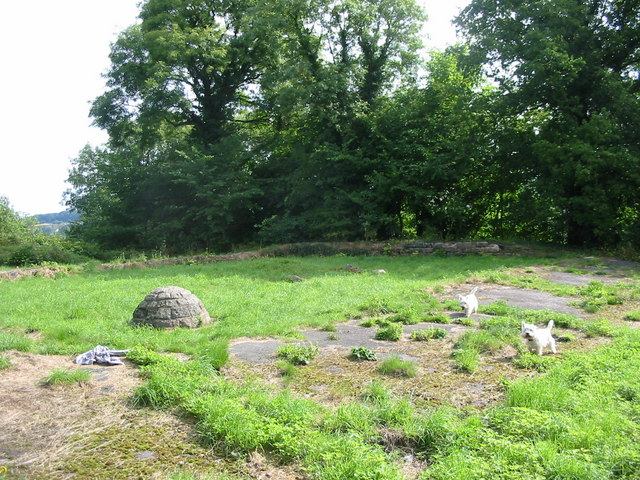 Duffield Castle Duffield Castle is/was an 11th century stone motte and bailey fortress, founded by Henry de Ferrers, Earl of Derby. The castle was destroyed in the 13th century and not much survives other than a few areas of tarmac and concrete showing the outlines.